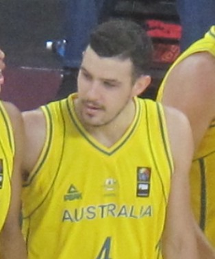 Category:Uploaded This file is made available under the Creative Commons CC0 1.0 Universal Public Domain Dedication. The person who associated a work with this deed has dedicated the work to the public domain by waiving all of his or her rights to the work worldwide under copyright law, including all related and neighboring rights, to the extent allowed by law. You can copy, modify, distribute and perform the work, even for commercial purposes, all without asking permission.